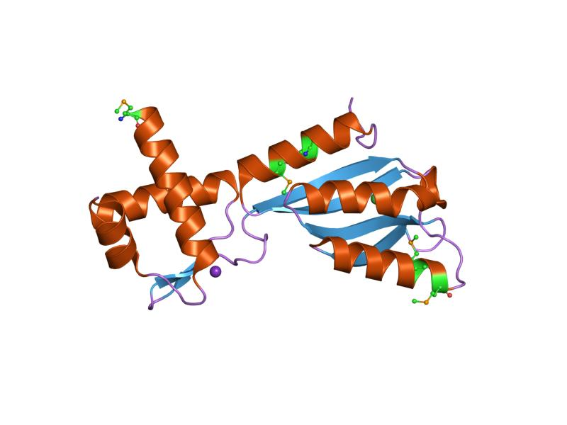 Cartoon representation of the molecular structure of protein registered with 1j5y code.